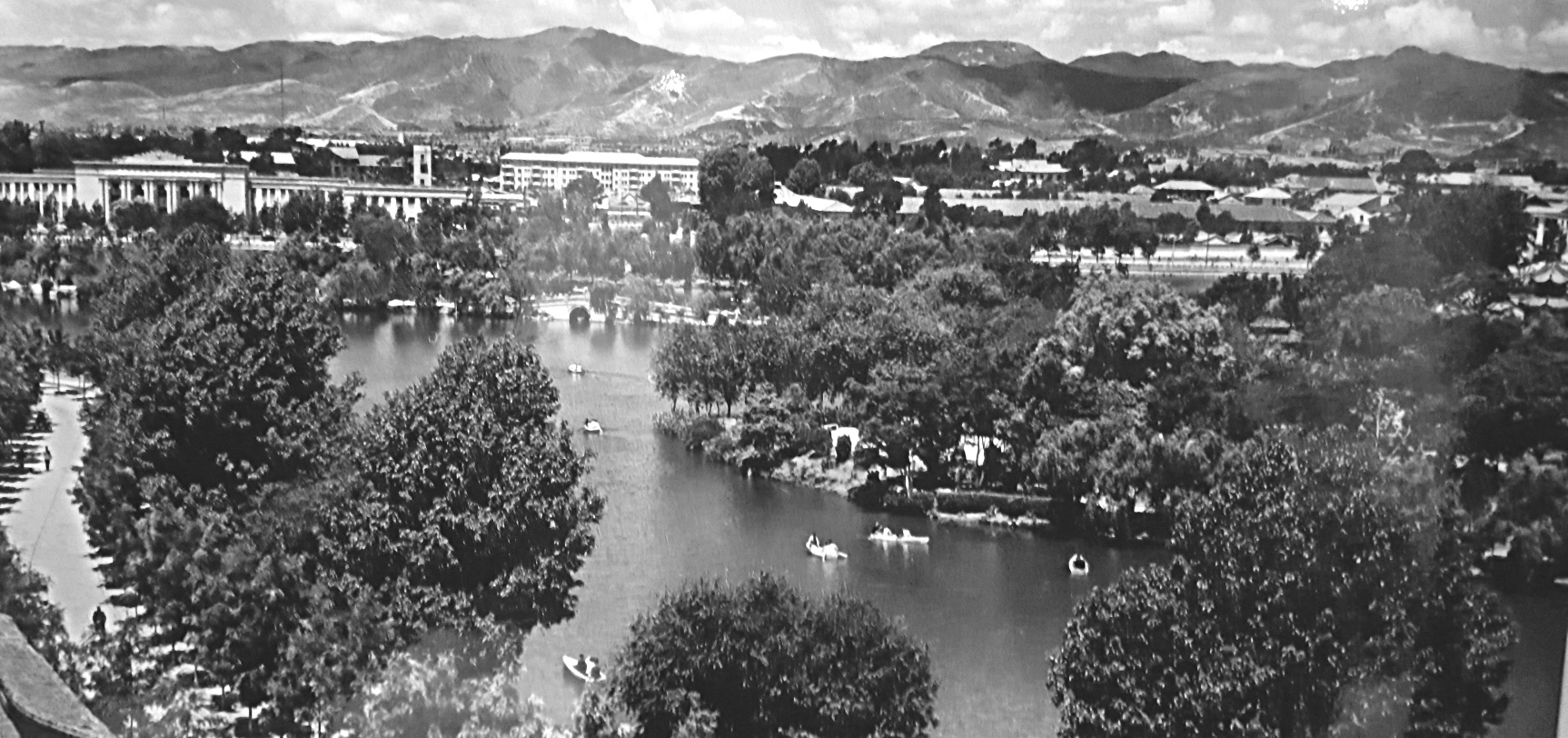 Photograph of a reproduction of a photographic panoramic view of Kunming's Cuihu (翠湖 / 'Green Lake') park, taken from the east, possibly circa 1940s.